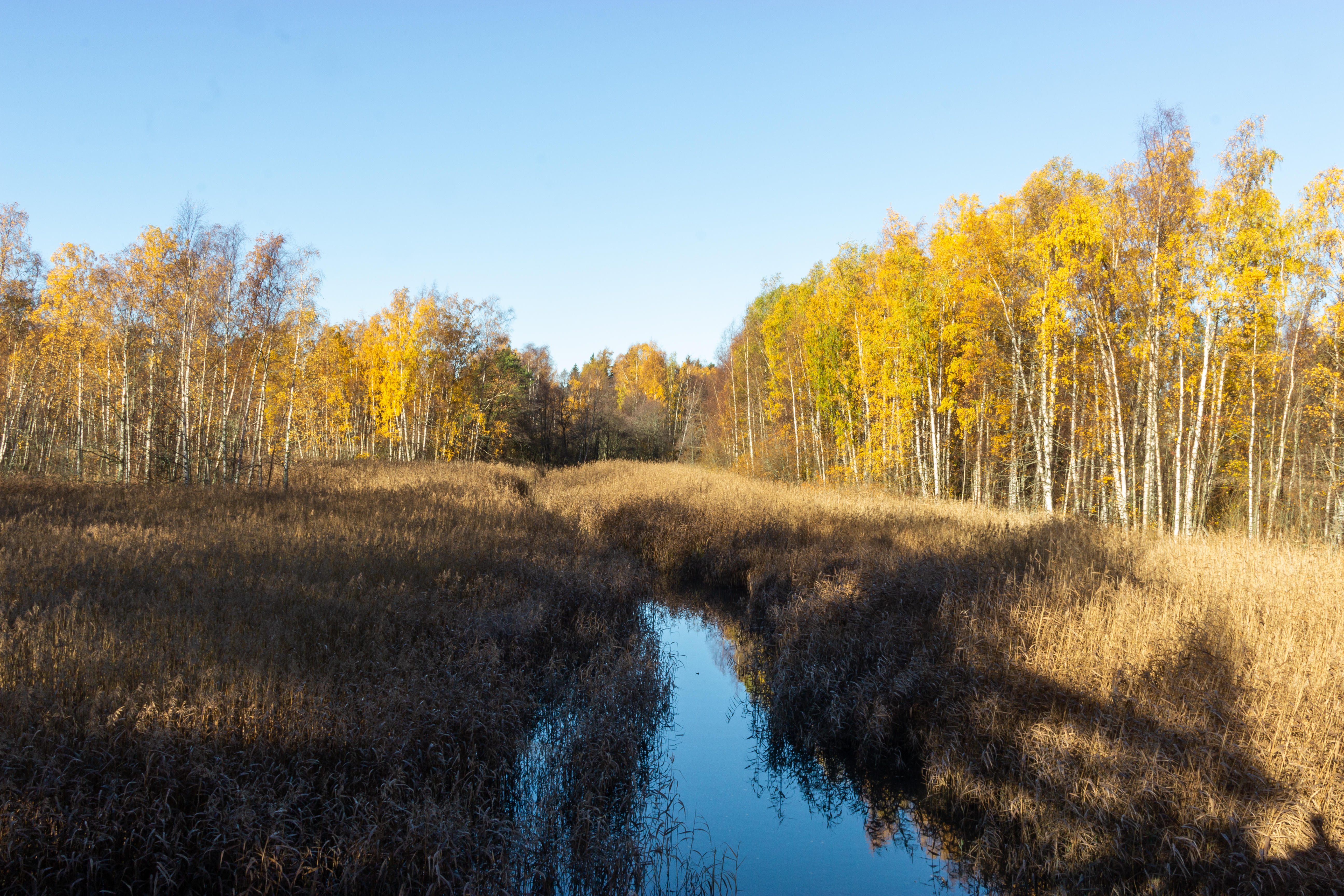 The delta of the Gräsanoja stream on the border of Matinkylä and Haukilahti in Espoo.